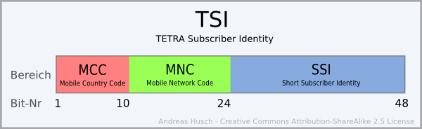 Structure of the TETRA TSI Address